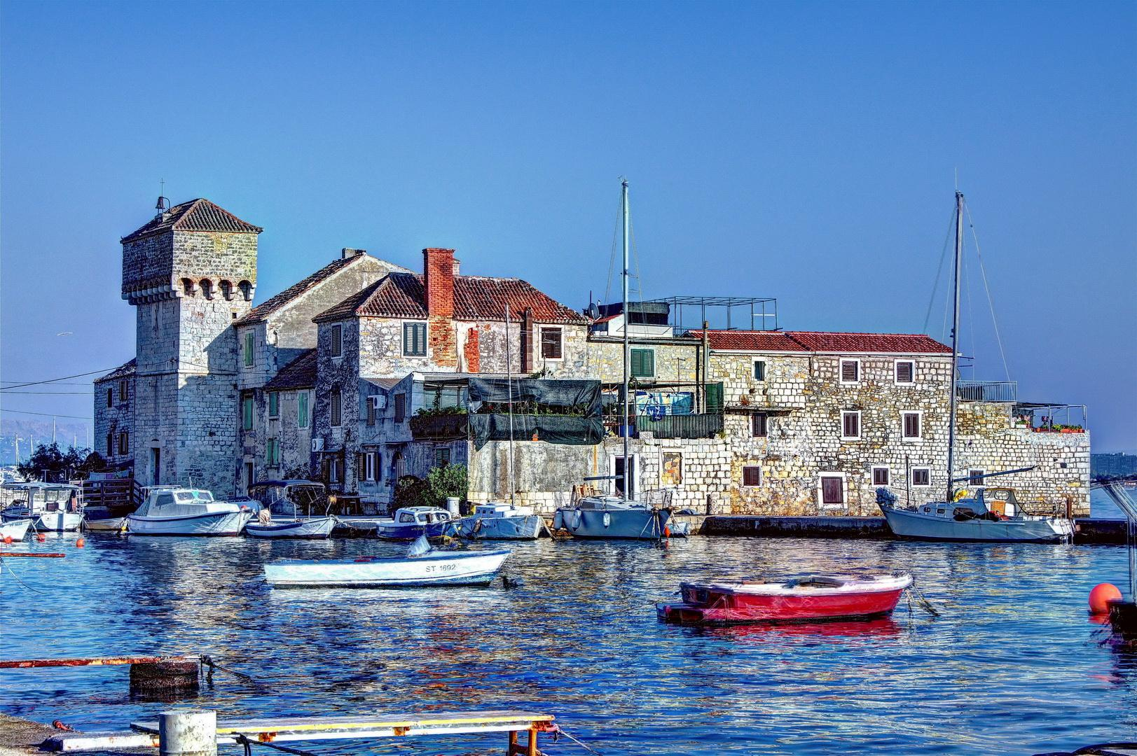 Kaštel Gomilica (Kaštilac), 2011-09-11; as seen from the west side